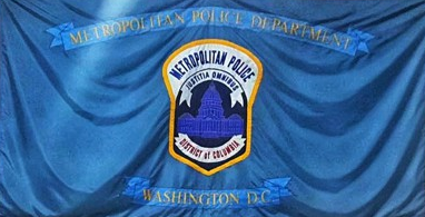 Flag of the Metropolitan Police Department of the District of Columbia.